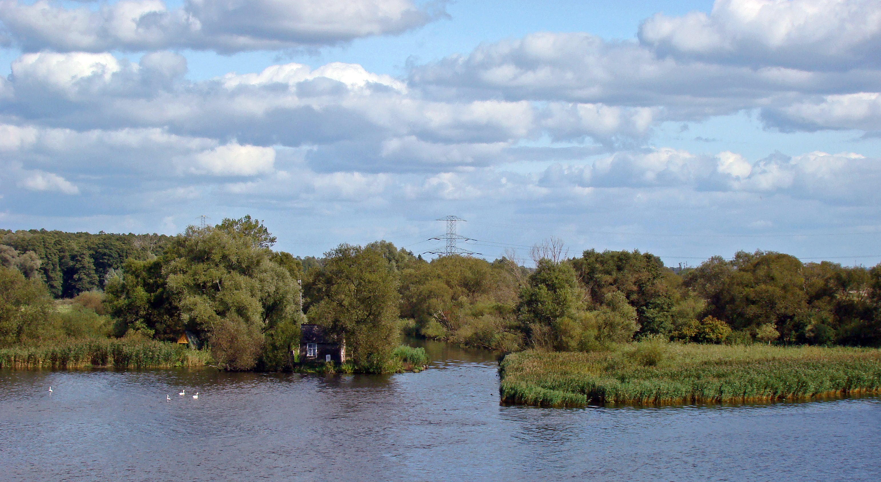 Ina, Odra, Poland